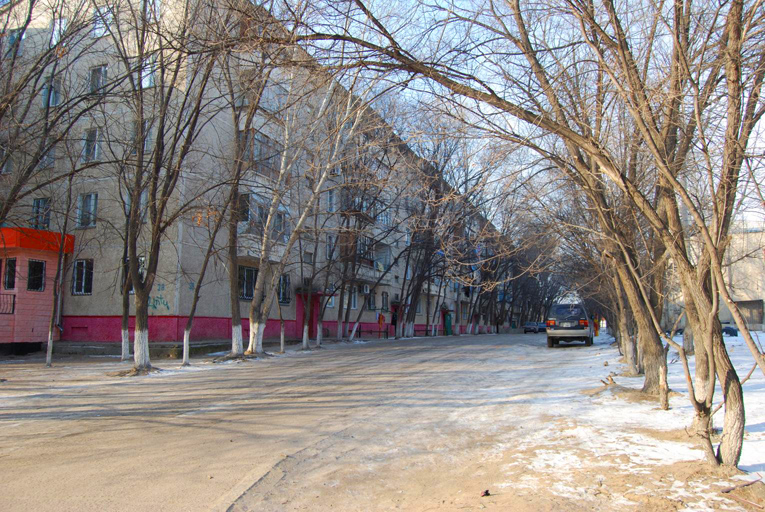 Kapchigai town, Kazakhstan